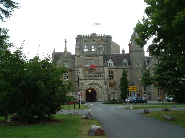 Tortworth Court Hotel. Near centre of square though strangely omitted from OS 50,000 series - perhaps because it was derelict for some time and recently renovated to become a Hotel.